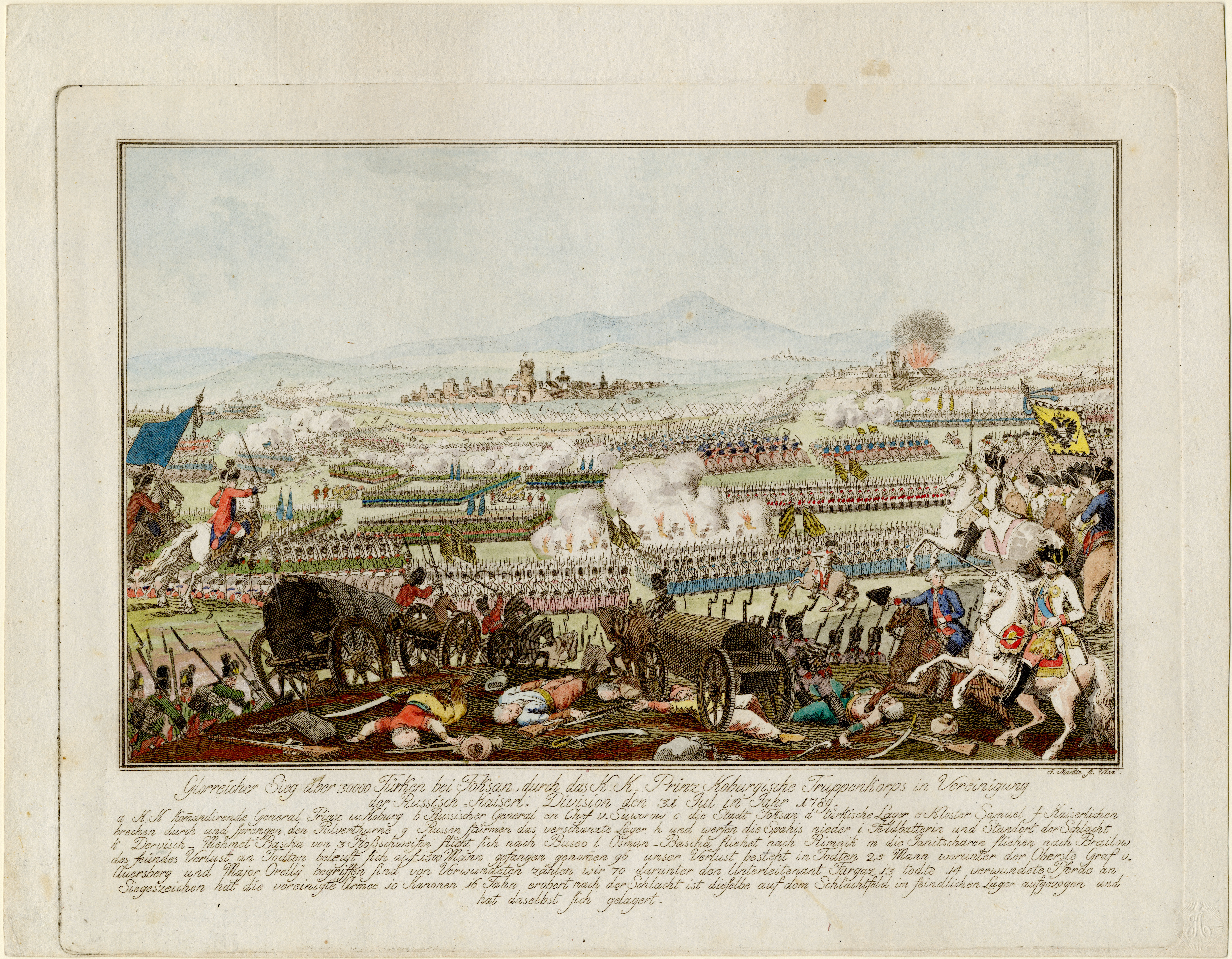 "Gloreicher Sieg uber 30000 Türken bei Foksan, durch das K.K. Prinz Koburgische Truppenkorps in Vereinigung der Russisch-Kaiserl. Division den 31 Jul. in Jahr 1789" (1789). Prints, Drawings and Watercolors from the Anne S.K. Brown Military Collection. Brown Digital Repository. Brown University Library.